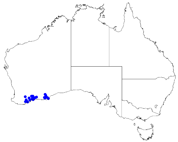 Boronia inconspicua occurrence data downloaded from Australasian Virtual Herbarium 10 April 2019 using This download included all the environmental overlay fields and ALA's data checking fields including "cultivated / escapee", "outside expert range for species", "latitude is negated", "coordinates are transposed", "taxon misidentified", "habitat incorrect for species", and "suspected outlier" (over 730 fields). Deleting occurrences for which any of the above were true, 46 specimens with coordinates were deleted. However this did not remove all obvious spatial outliers some of which were later removed by hand..